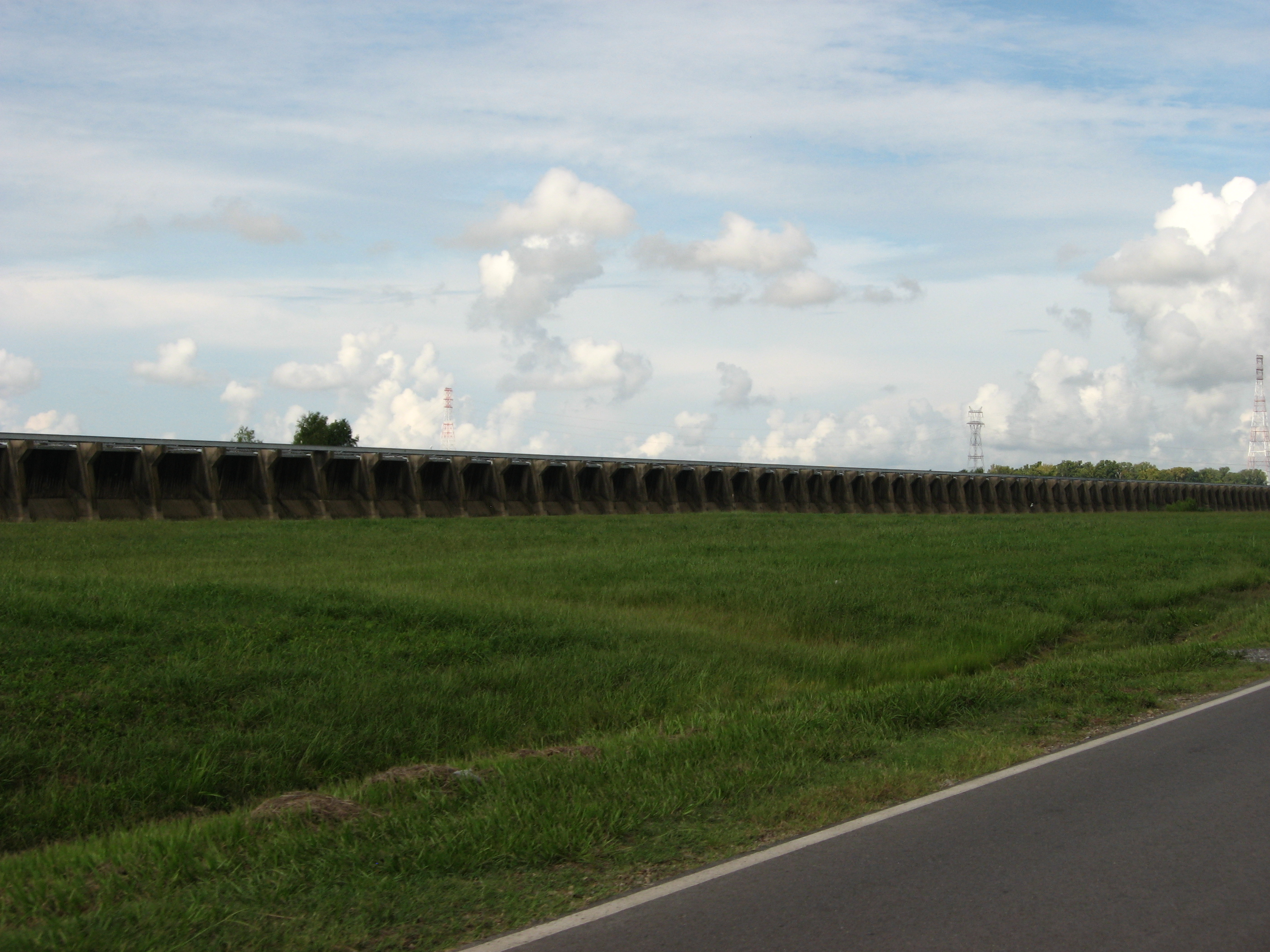 The Bonnet Carré Spillway is a flood control operation in the Lower Mississippi Valley. Located in St. Charles Parish, Louisiana - about 12 miles west of New Orleans - it allows floodwaters from the Mississippi River to flow into Lake Pontchartrain and thence into the Gulf of Mexico. Driving along the road that is closed and under water when the spillway floodgates are opened.